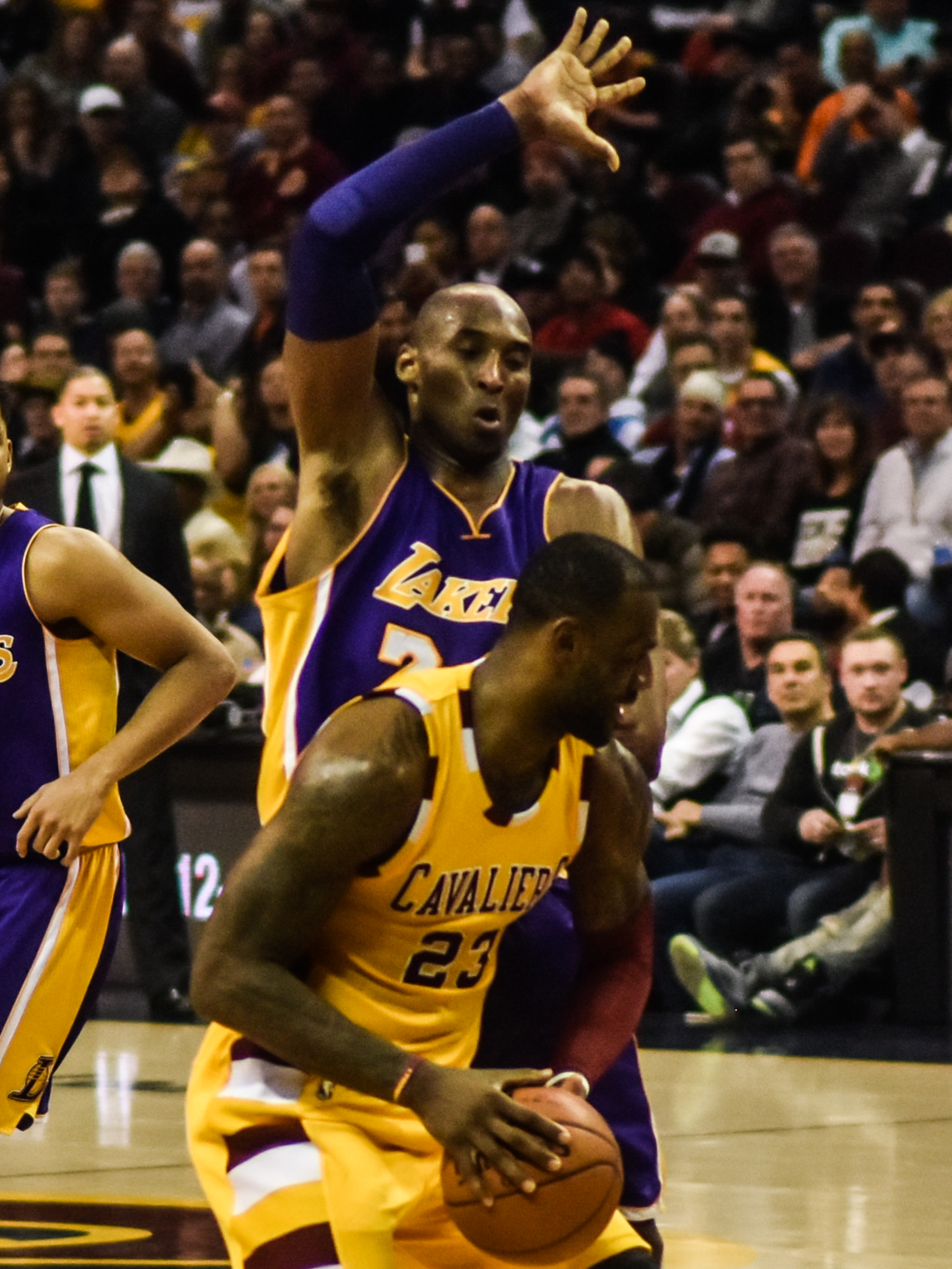 LeBron James defended by Kobe Bryant